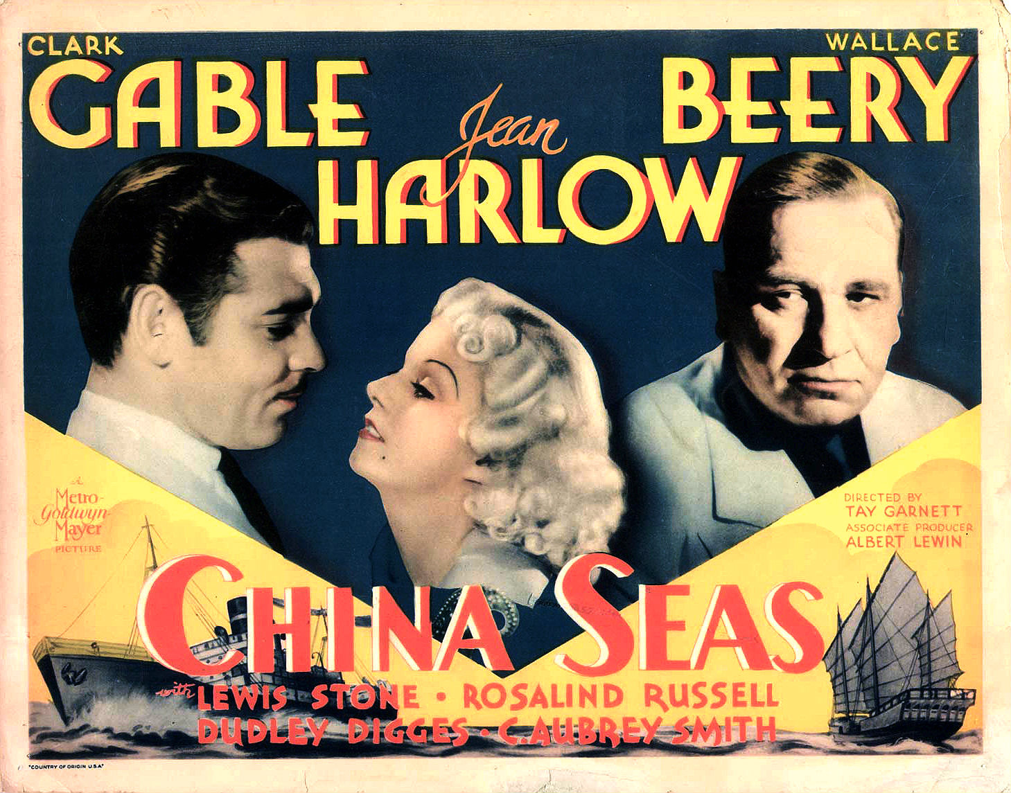 Lobby card for the American adventure film China Seas (1935).